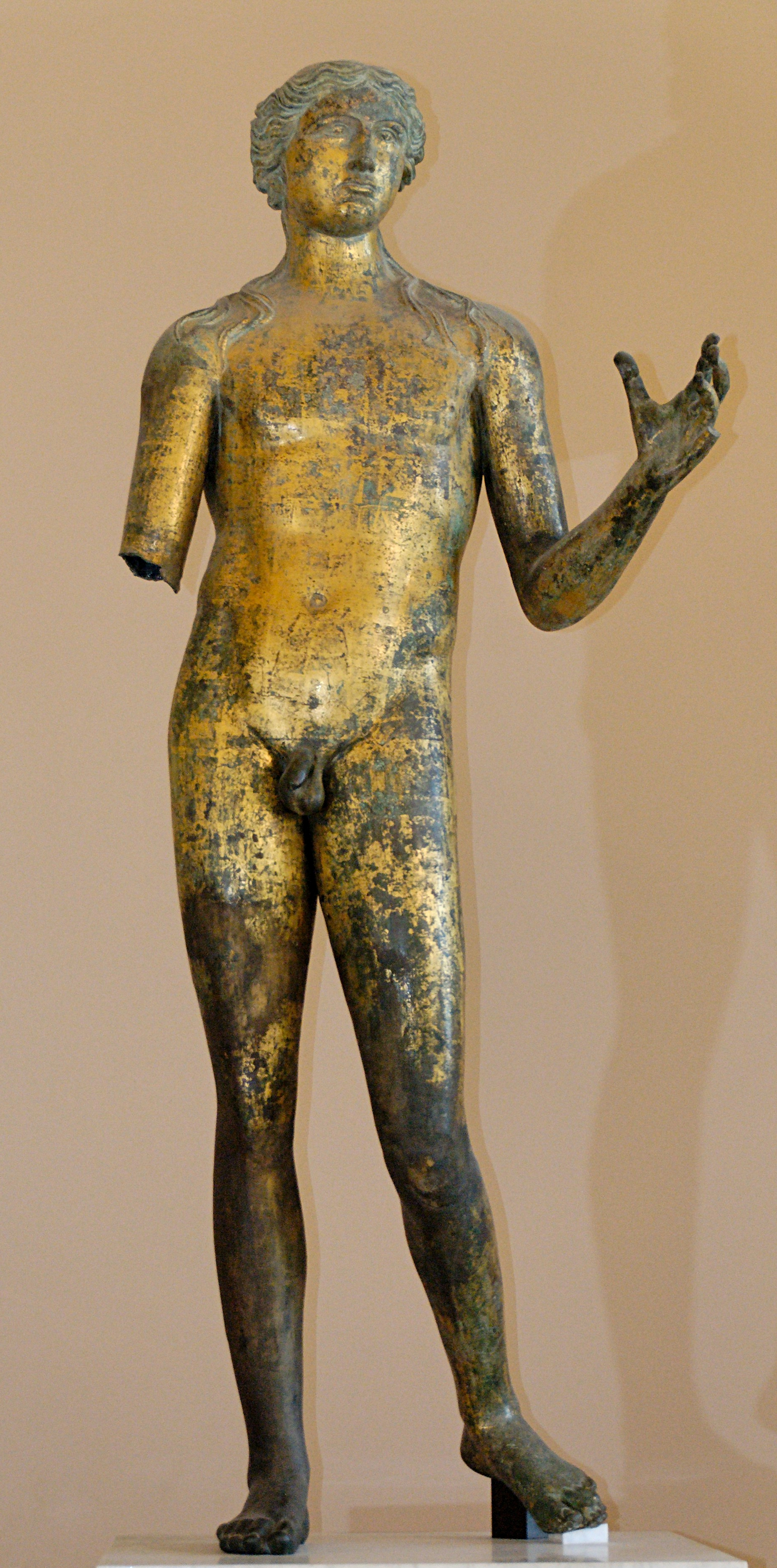 Apollon. Gilt bronze, Roman-Gallic artwork, 2nd century CE. Found in 1823 at Lillebonne, Normandy, near an antique theatre.